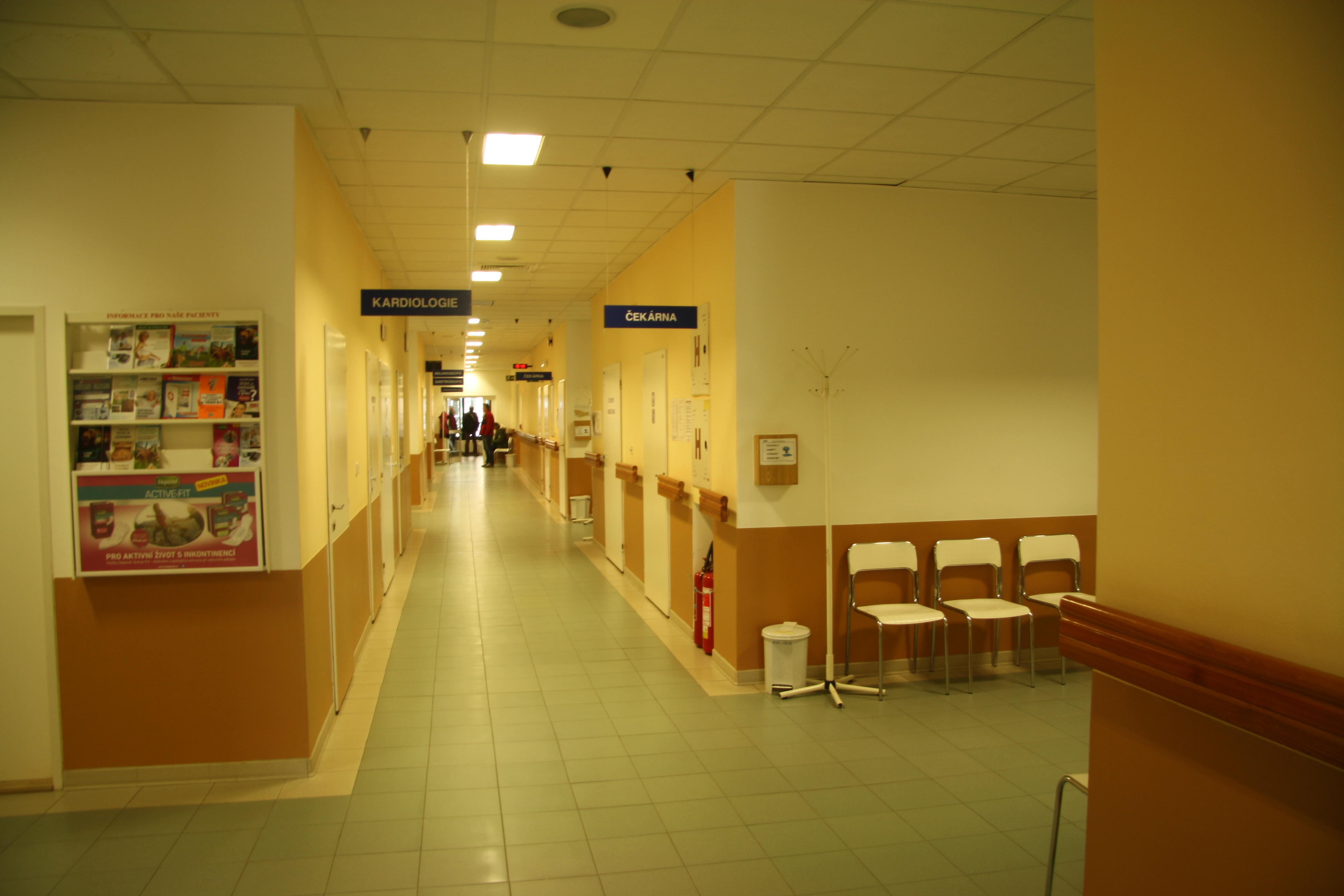 Interior 2 of building U of Třebíč Hospital in Třebíč, Třebíč District.